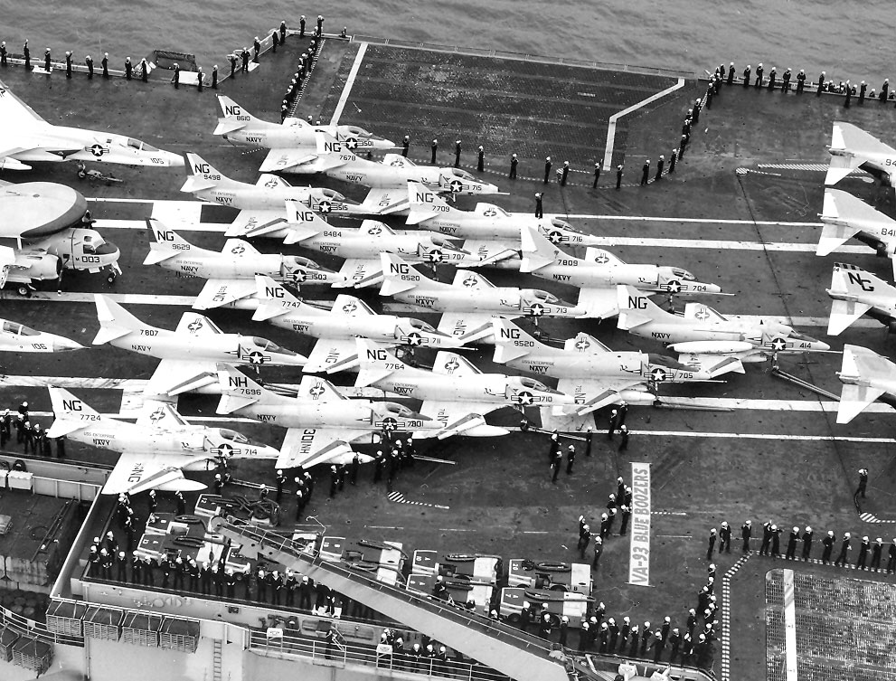 A4-C Skyhawks on the deck of the USS Enterprise